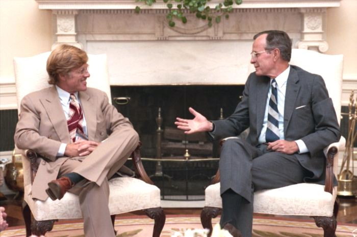 President George H. W. Bush visits with Robert Redford in the Oval Office. 27 July 1989